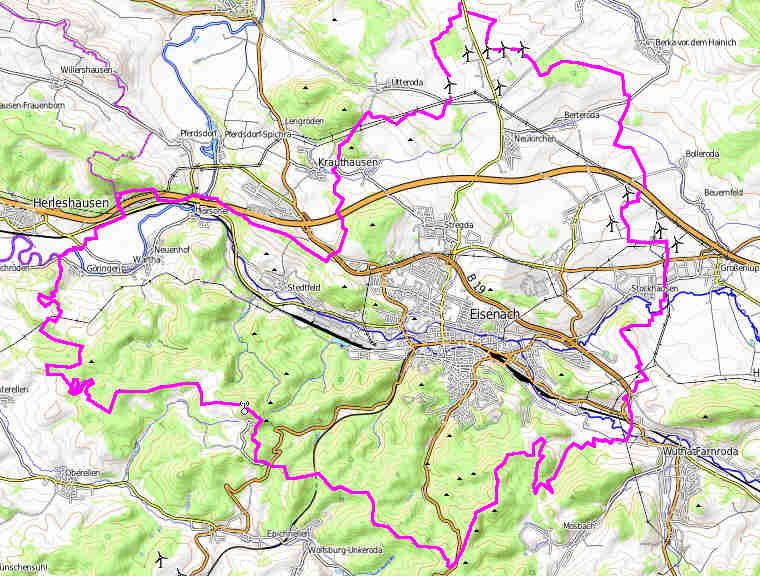 This map may be incomplete, and may contain errors. Don't rely solely on it for navigation.